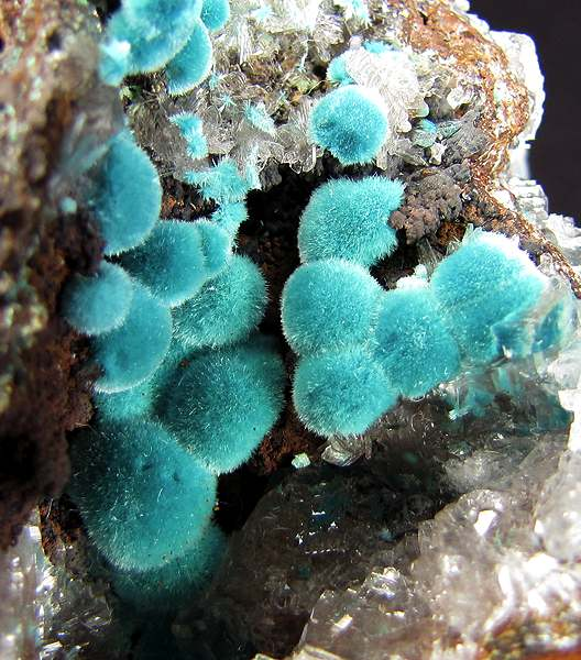 Rosasite, Calcite Locality: Ojuela Mine, Mapimí, Municipio de Mapimí, Durango, Mexico (Locality at ) Size: 5.2 x 3.9 x 3.0 cm. Velvety spherules of gorgeous, teal-blue, acicular rosasite crystals with glassy calcite crystals beautifully line a cavity in sturdy gossan matrix on this very fine and classic specimen from Mina Ojuela. Ex. Robert Whitmore Collection.